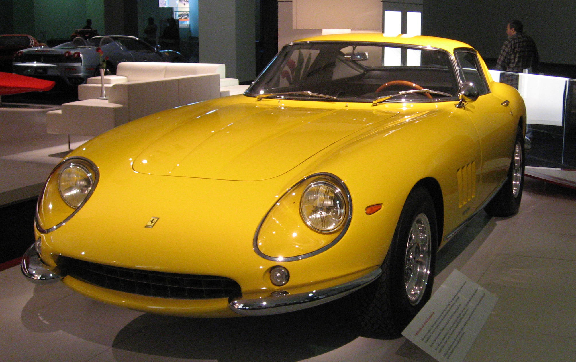 Image of a 1967 Ferrari_275, taken at the 2007 LA Auto Show.